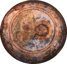 Archangels Monastery Kousko Fresco